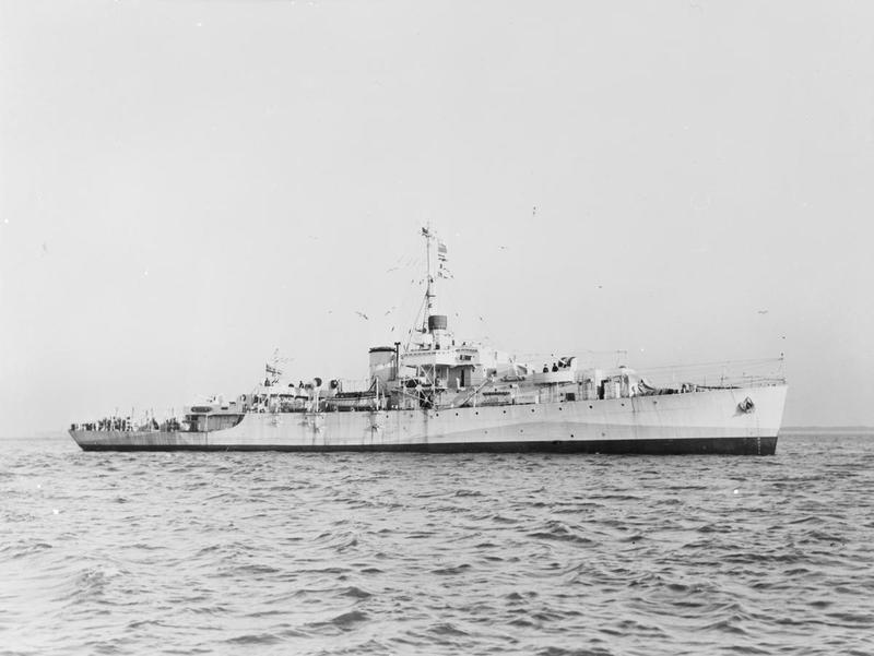 One of the Navy's New Frigates - HMS Lagan. 4 February 1943. This Is One of the New "frigates" - a Faster, Heavier Type of Corvette, With Which the Royal Navy Is Combating the U-boat Menace. Frigates Are Officially Classed As 'river Class' Corvettes.